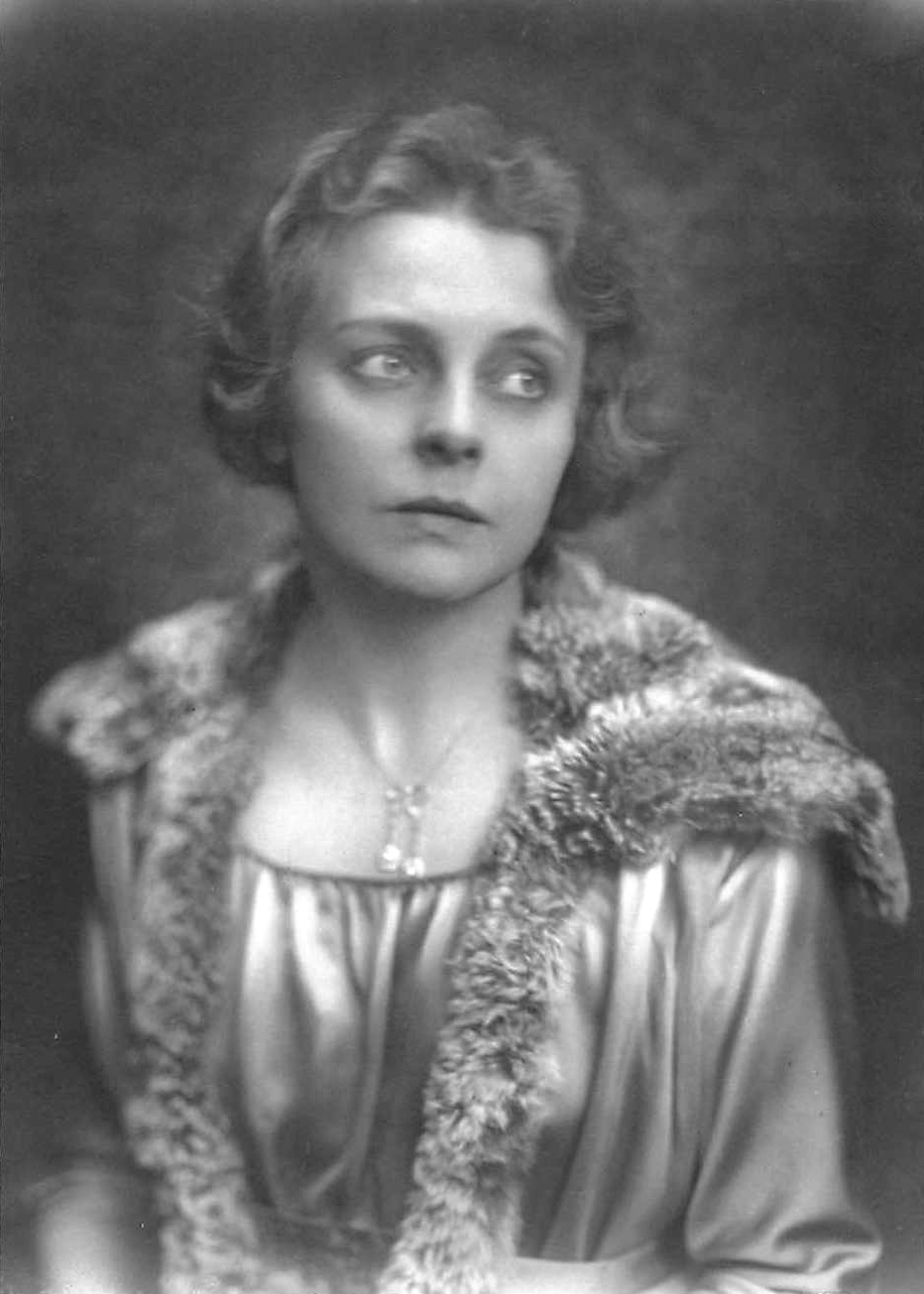 Portrait of German actress Stella Harf (1890–1979) by Becker & Maass, Berlin.